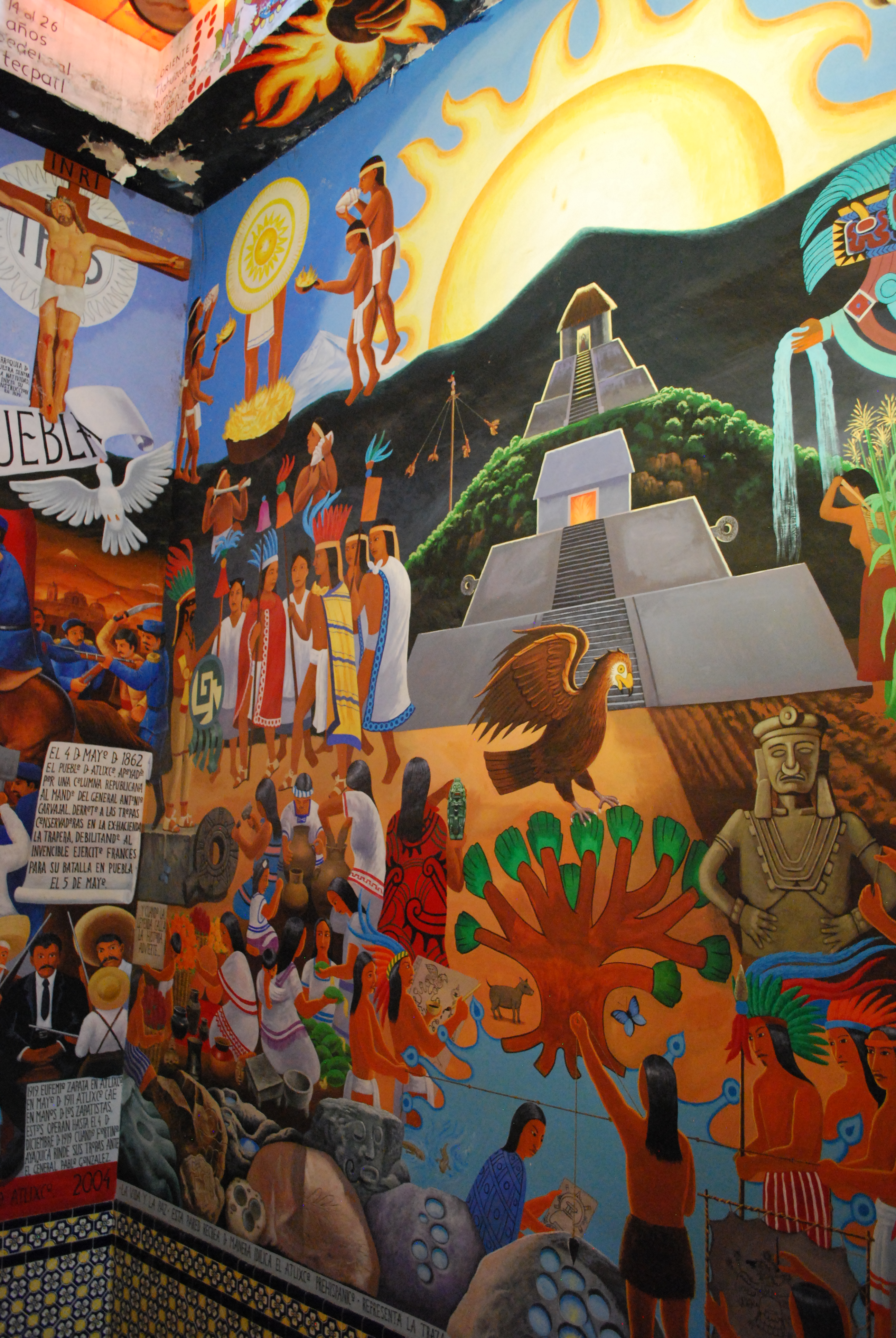 Mural work in the stairwell of the municipal palace of Atlixco, Puebla